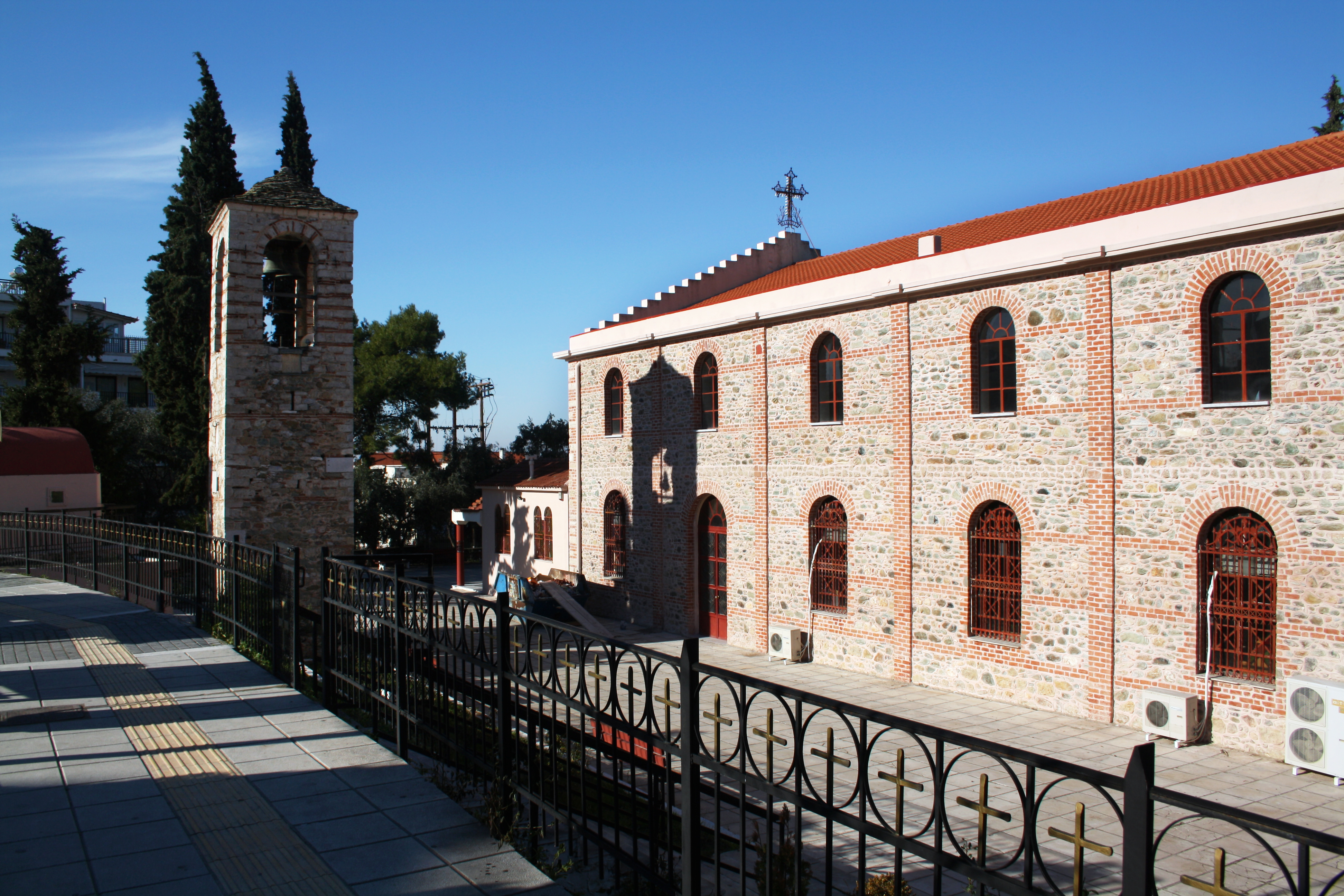 Saint Elijah Church in Pylea in Thessaloniki